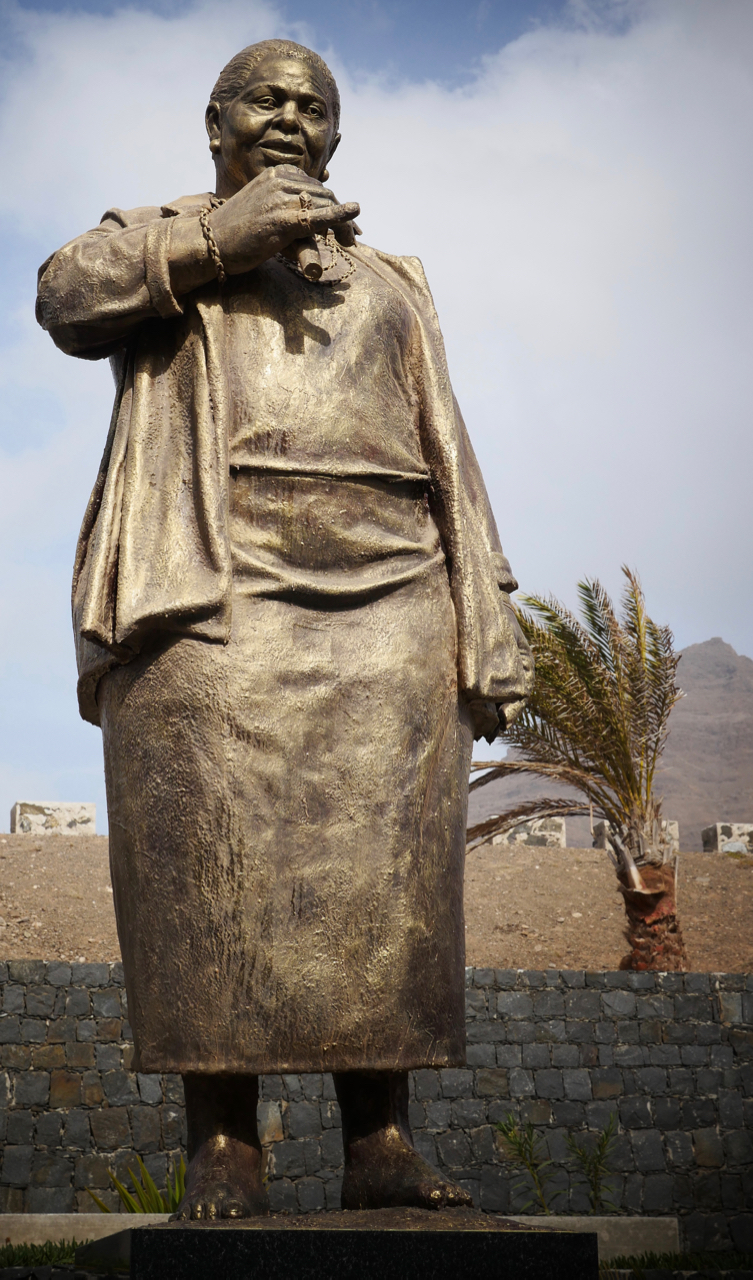 A sculpture of Cesaria Evora, a Cabo Verdean singer, at the eponymous airport in Mindelo, Cabo Verde.